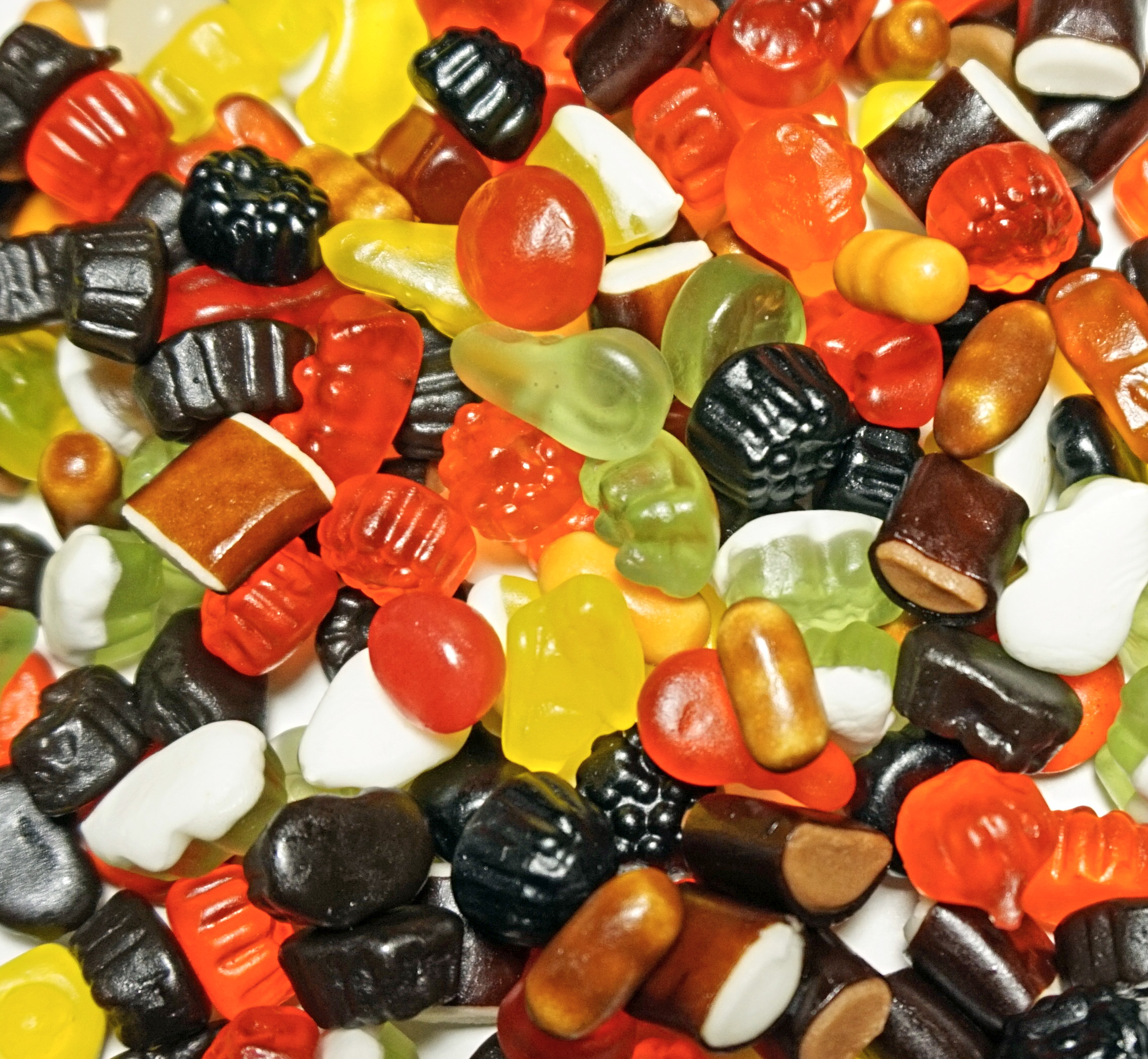 Click Mix candies by Haribo.